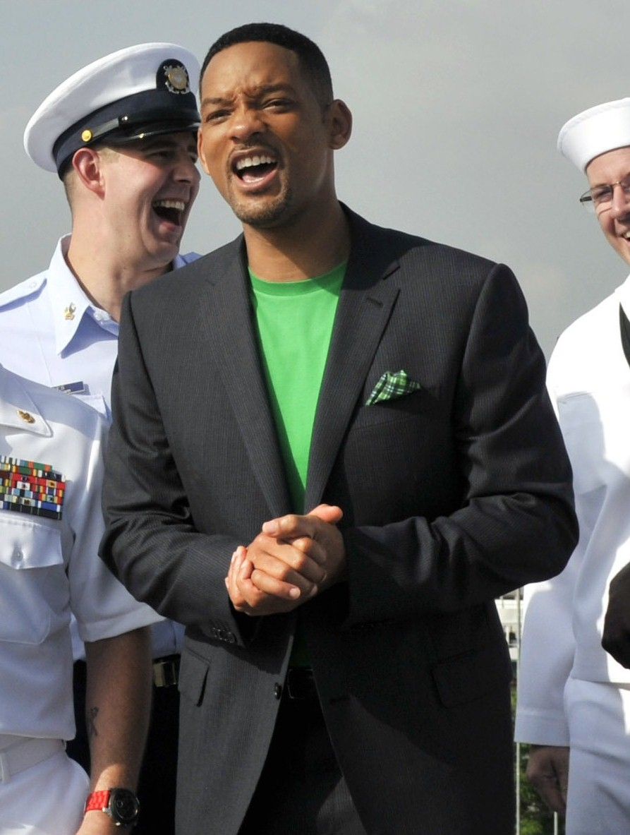 Actor Will Smith poses for a photo with Sailors aboard the Intrepid Sea, Air and Space museum ship during Fleet Week New York 2012.